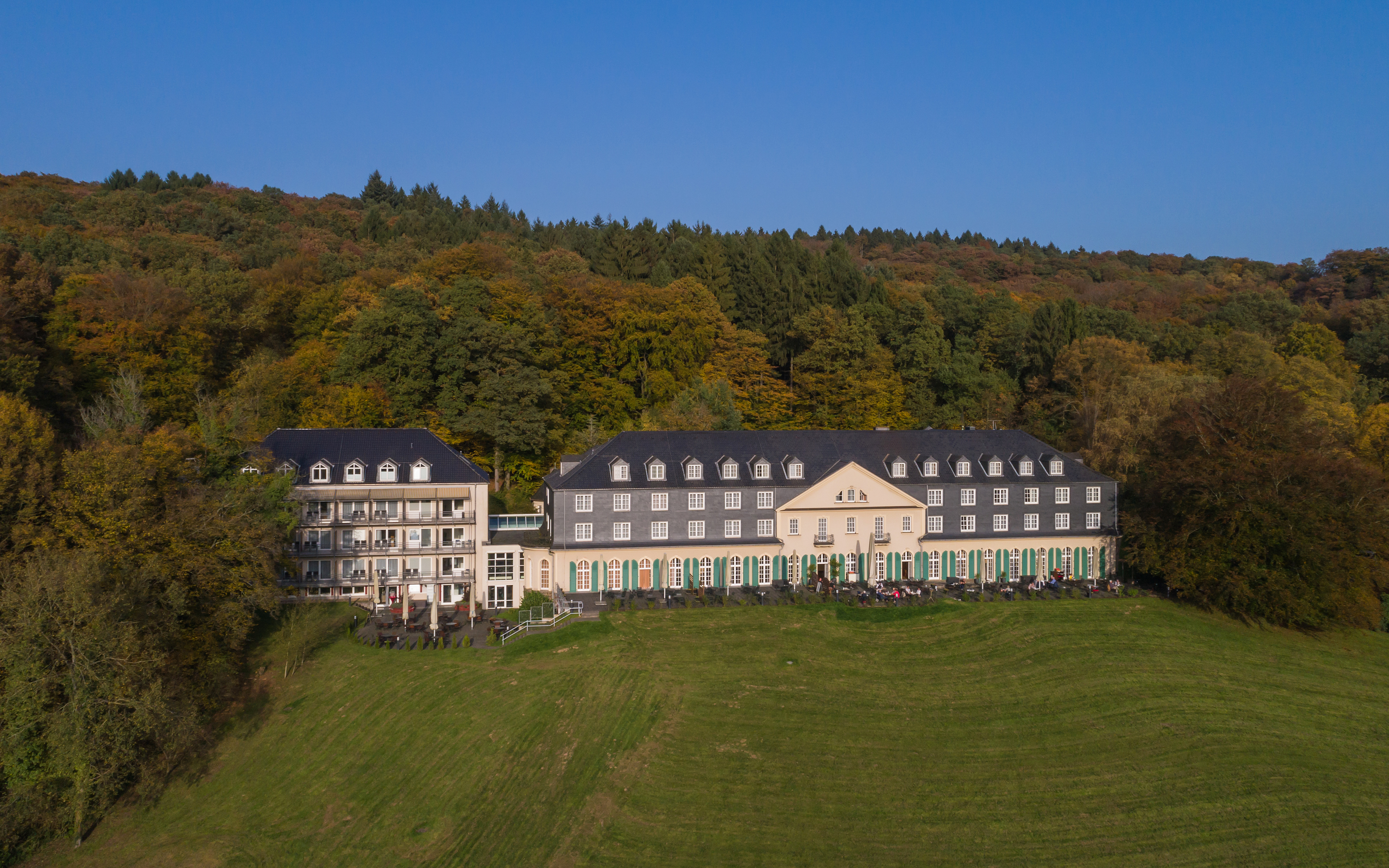 Aerial photo of Hotel Maria in der Aue, Wermelskirchen (Germany)